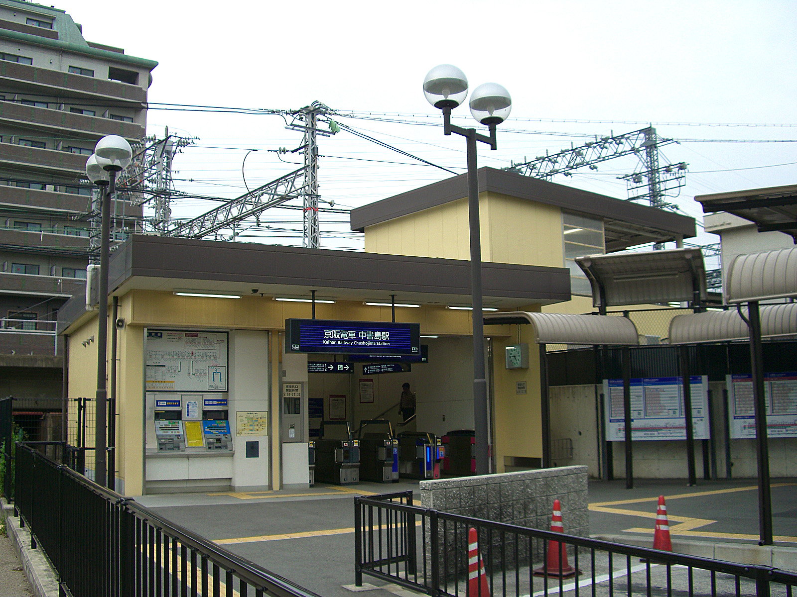 Keihan Electric Railway Keihan Main Line & Uji Line Chushojima Station South Gate